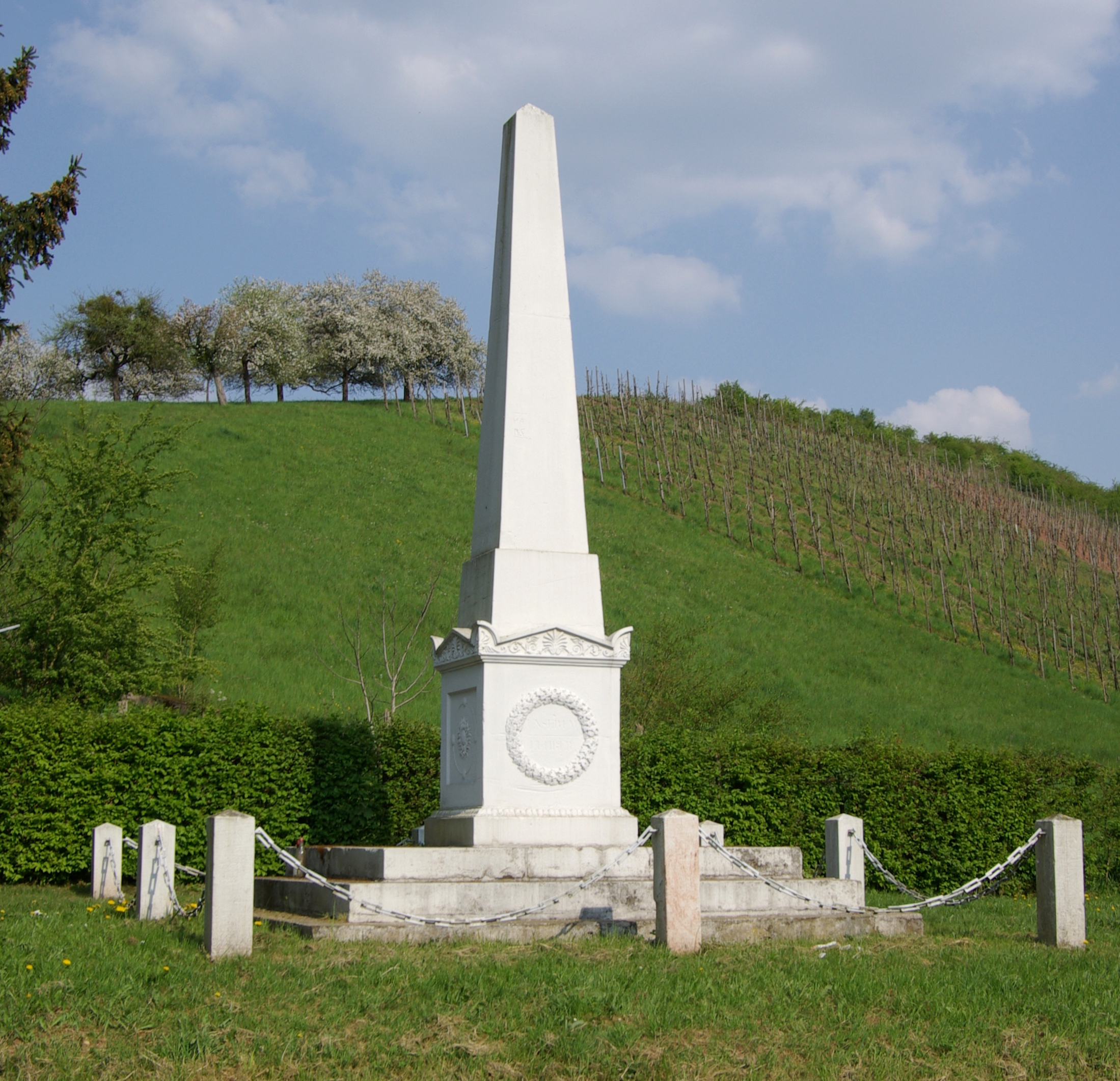 Germany, Trier, Monument for Johann Peter Wilhelm Stein, erected 1831